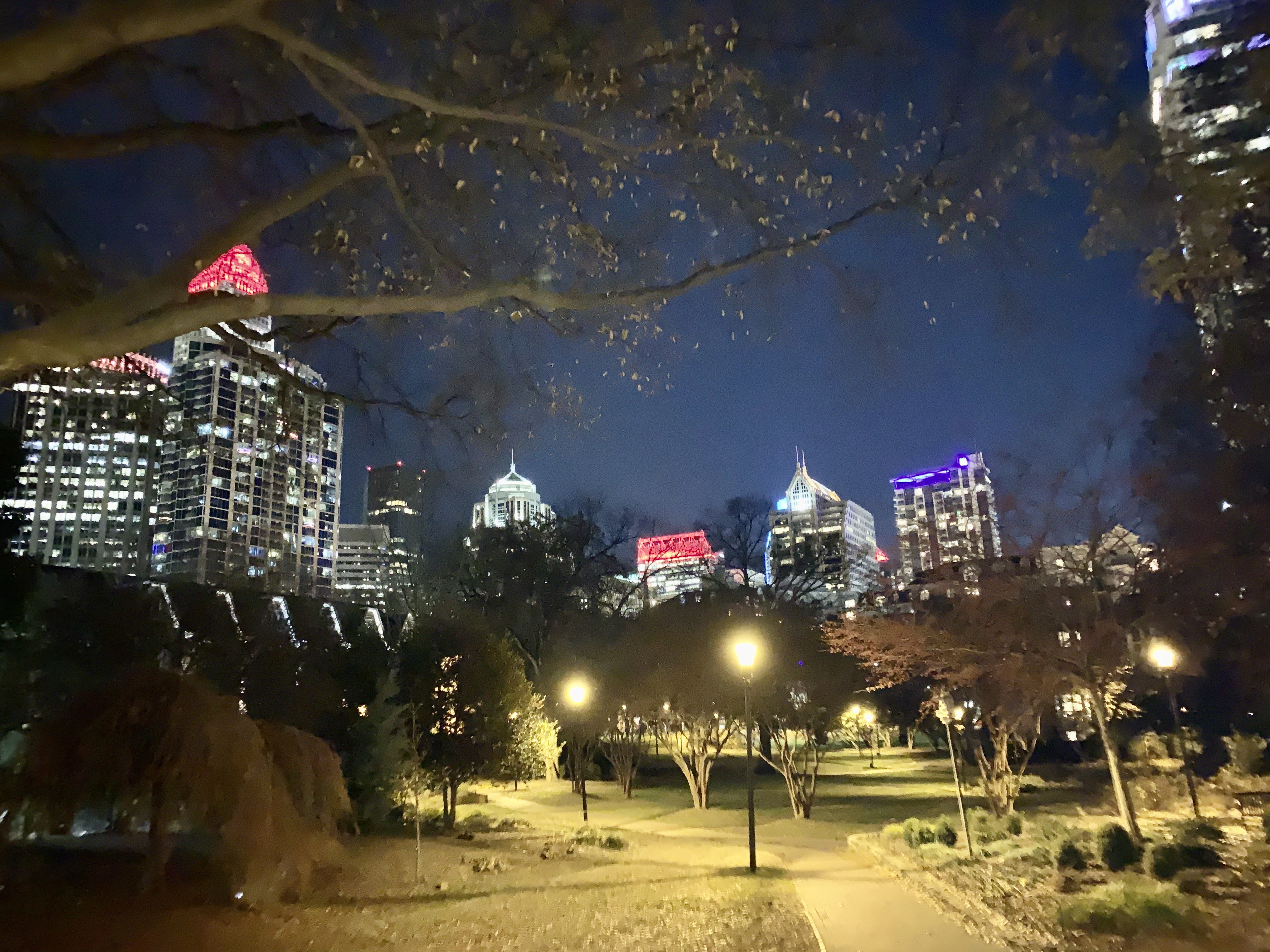 Fourth Ward- located in Uptown Charlotte, North Carolina. Photo was taken December 2019.